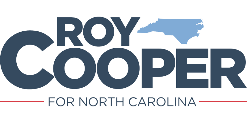 Roy Cooper for Governor logo. Note that the map of North Carolina is in the public domain, as an outline of the map is not copyrightable.